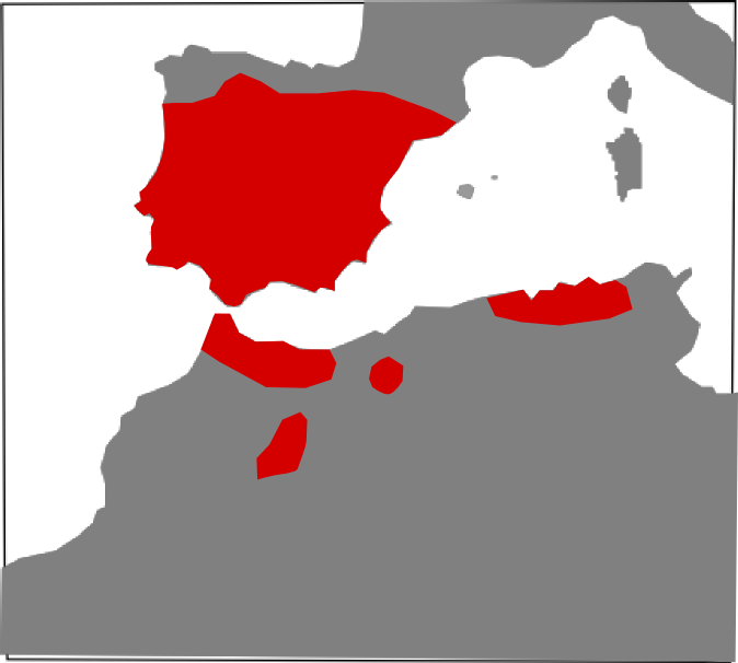 Vipera latastei range map.